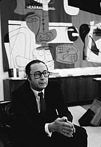 Pierre Aubert